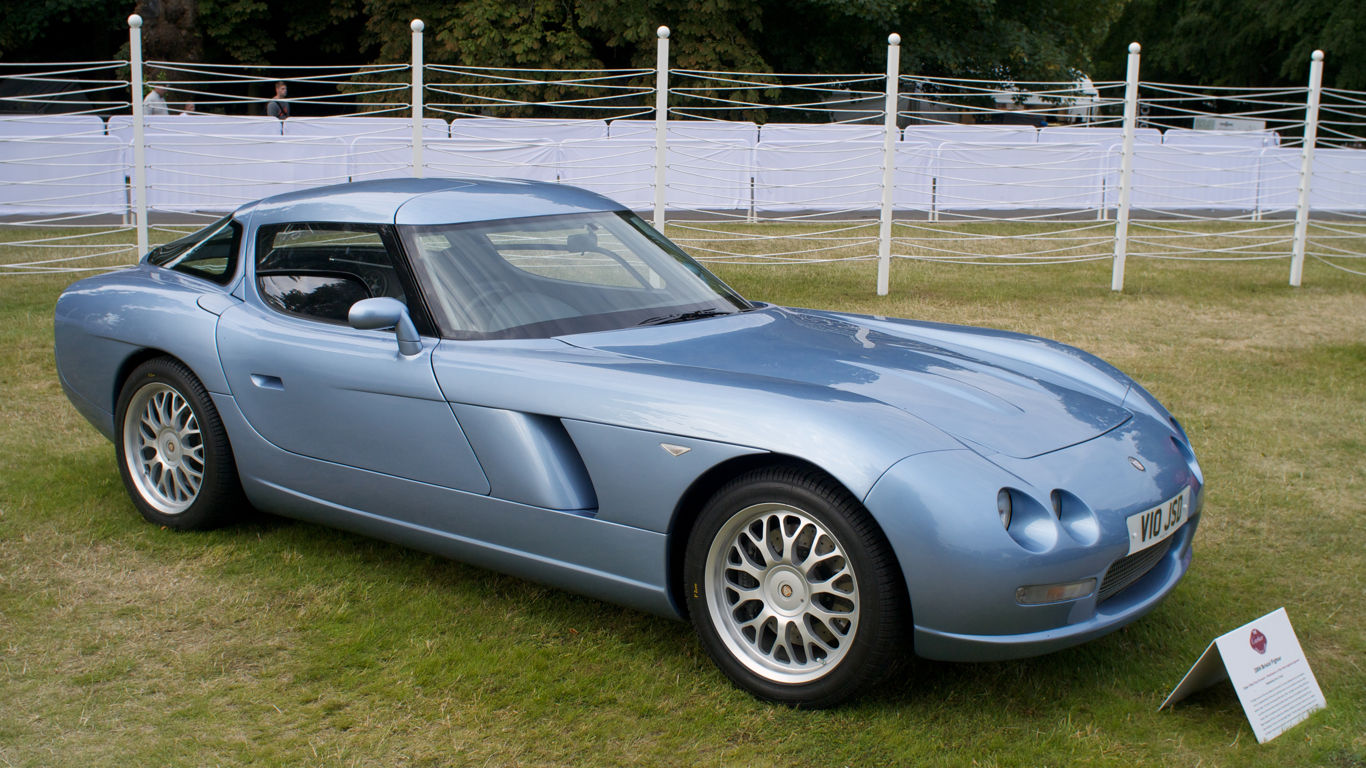 2004 Bristol Fighter. Goodwood Festival of Speed 2014.